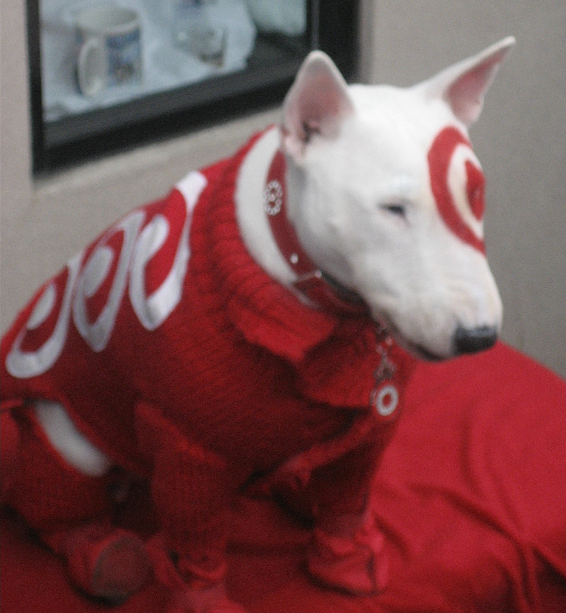 Target dog ("Bullseye") at the Anchorage ceremonial start of the Iditarod